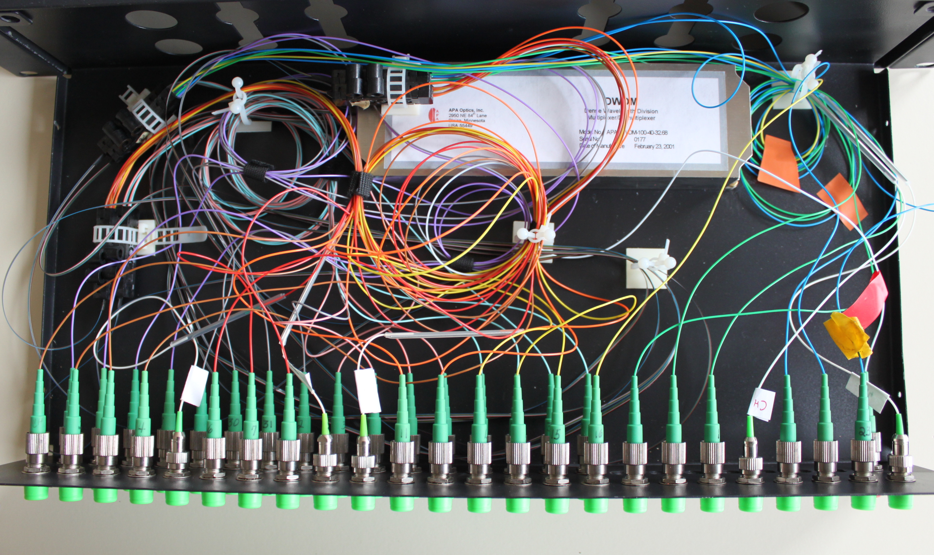 Wavelength-division multiplexer for WDM communications